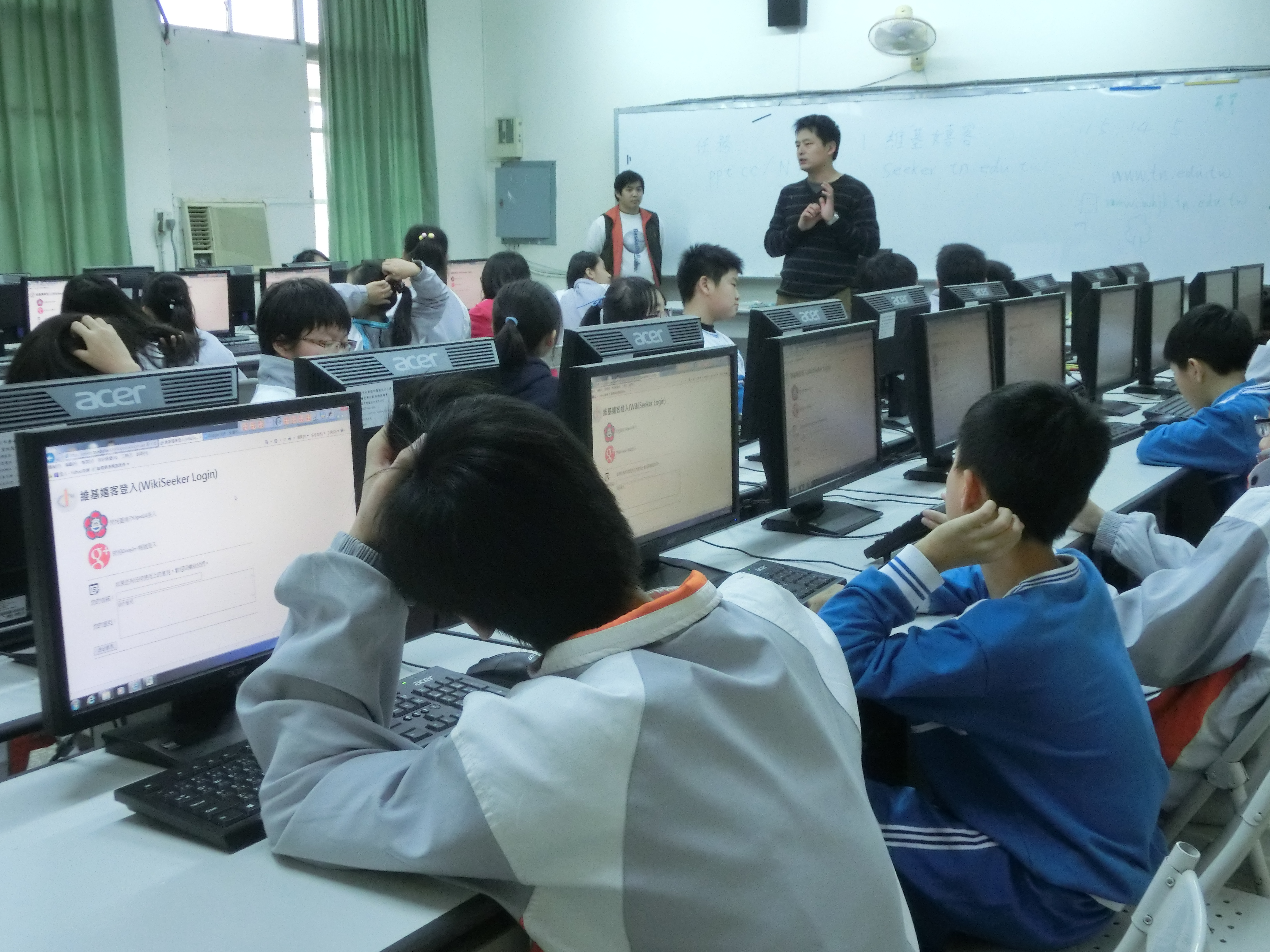 A teacher is guiding 7th grade students to use Wiki Seeker in a computer classroom.